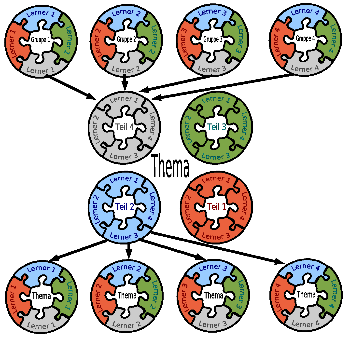 A Picture to show the Jigsaw Method